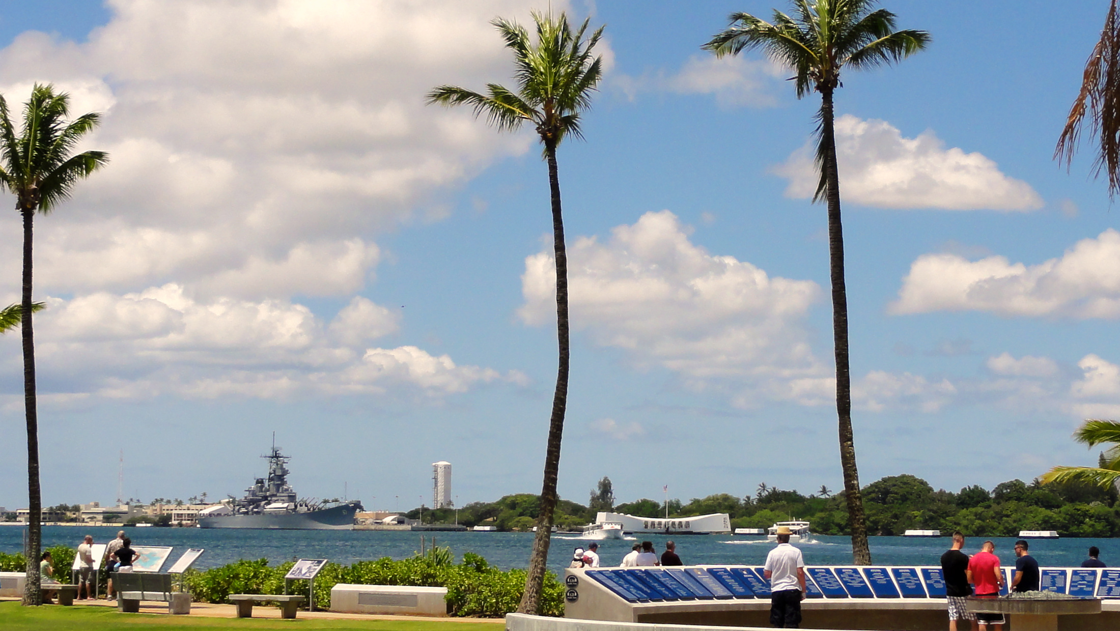 Pearl Harbor Visitors Center, Hawaii